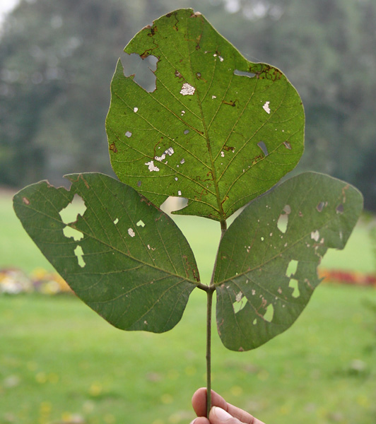 Dhak Butea monosperma in Kolkata, West Bengal, India.